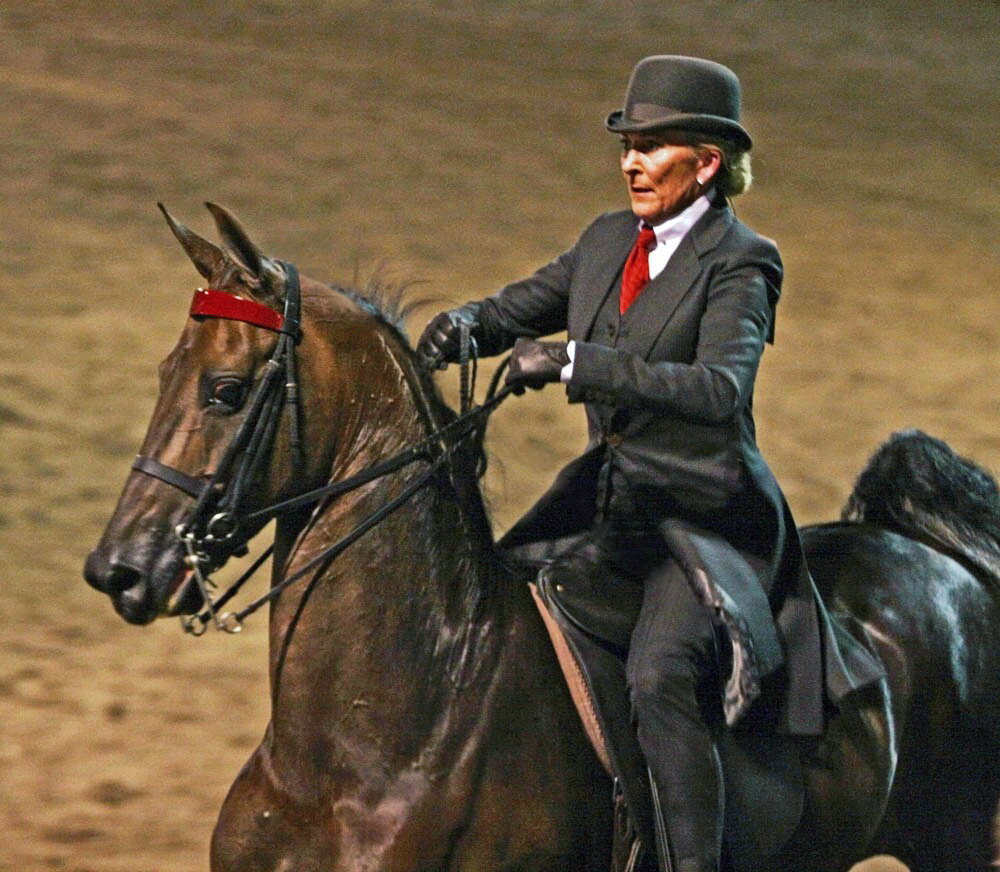 Mary Gaylord rides According to lynn to the five gaited stakes win at Shelbyville 2008 Photo by Heather Abounader